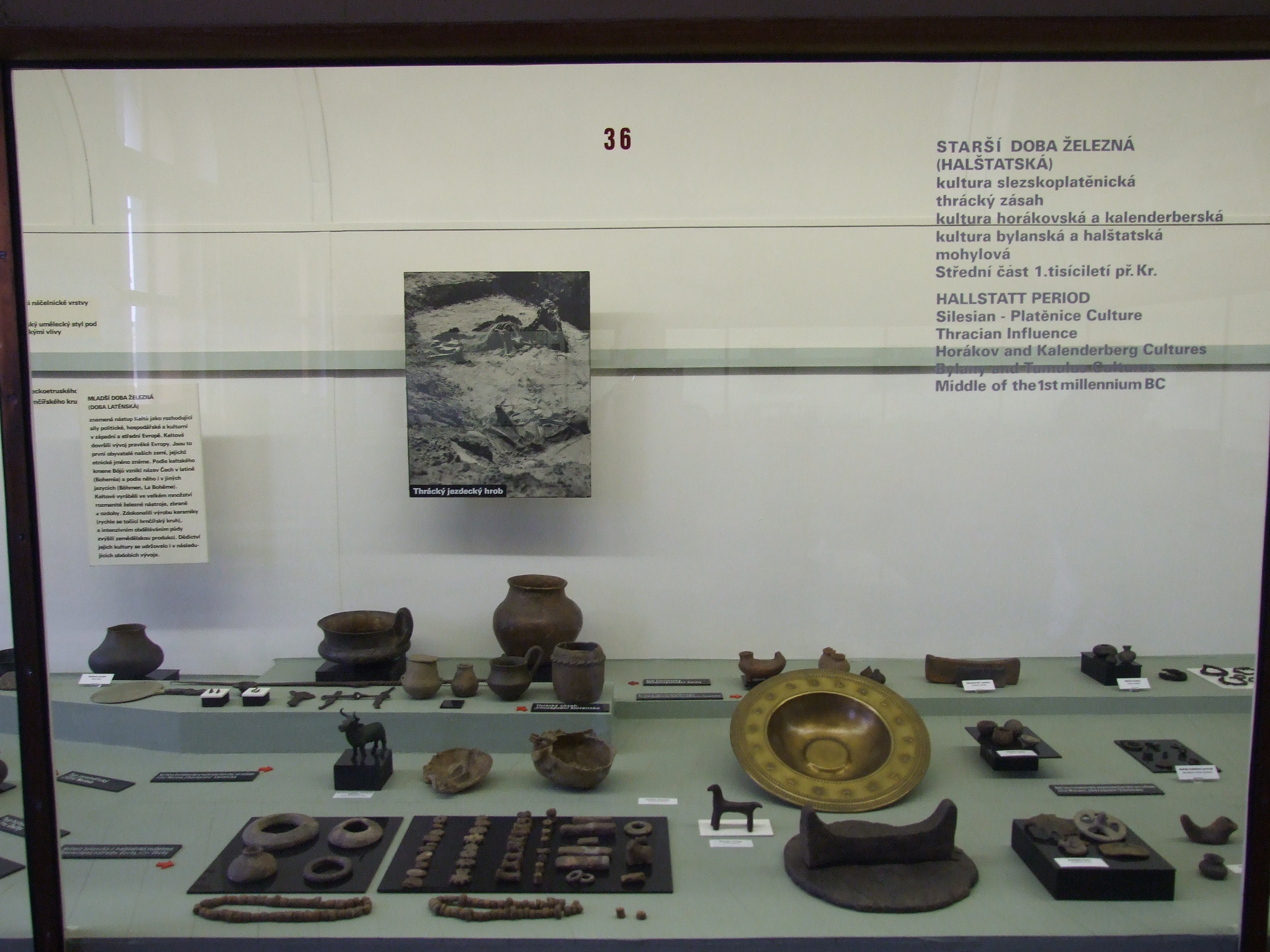 Prehistoric Times of Bohemia, Moravia and Slovakia, National Museum in Prague